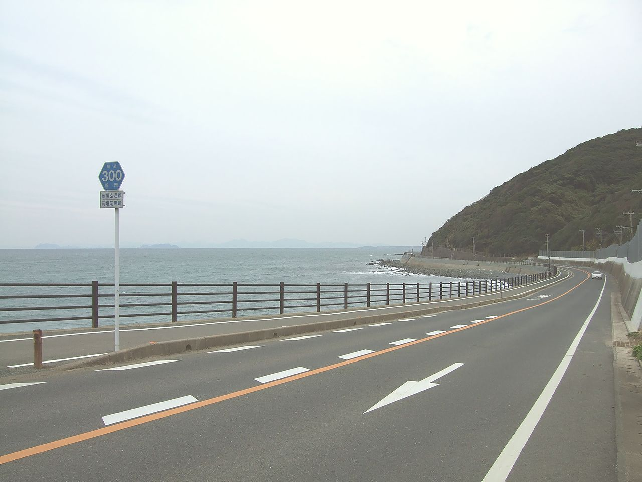 Fukuoka prefectural road No.300 (in Okagaki Town)